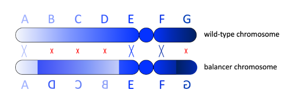 An illustration of a wild-type chromosome and a balancer chromosome.